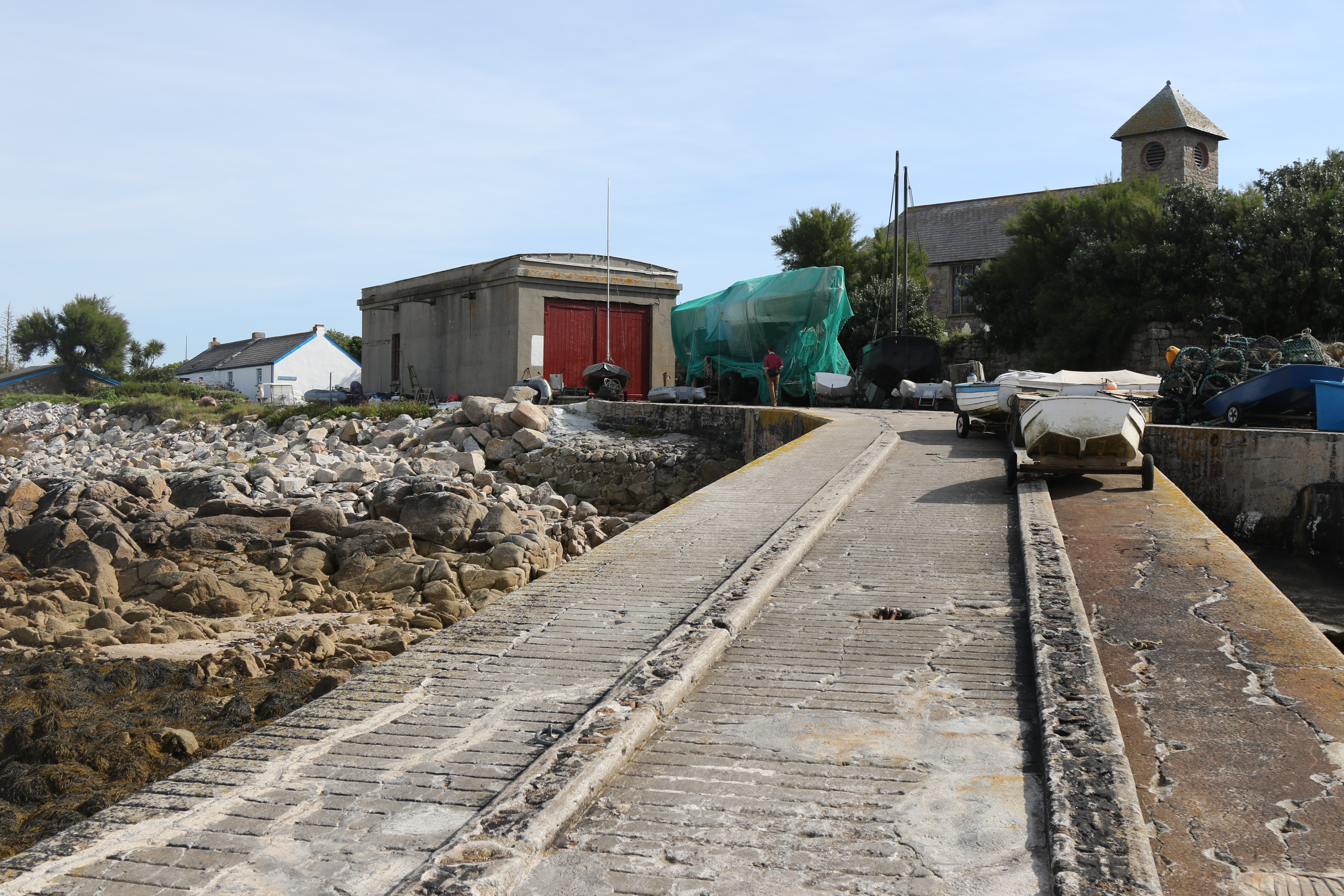 Former boatshed for the St Agnes Lifeboat